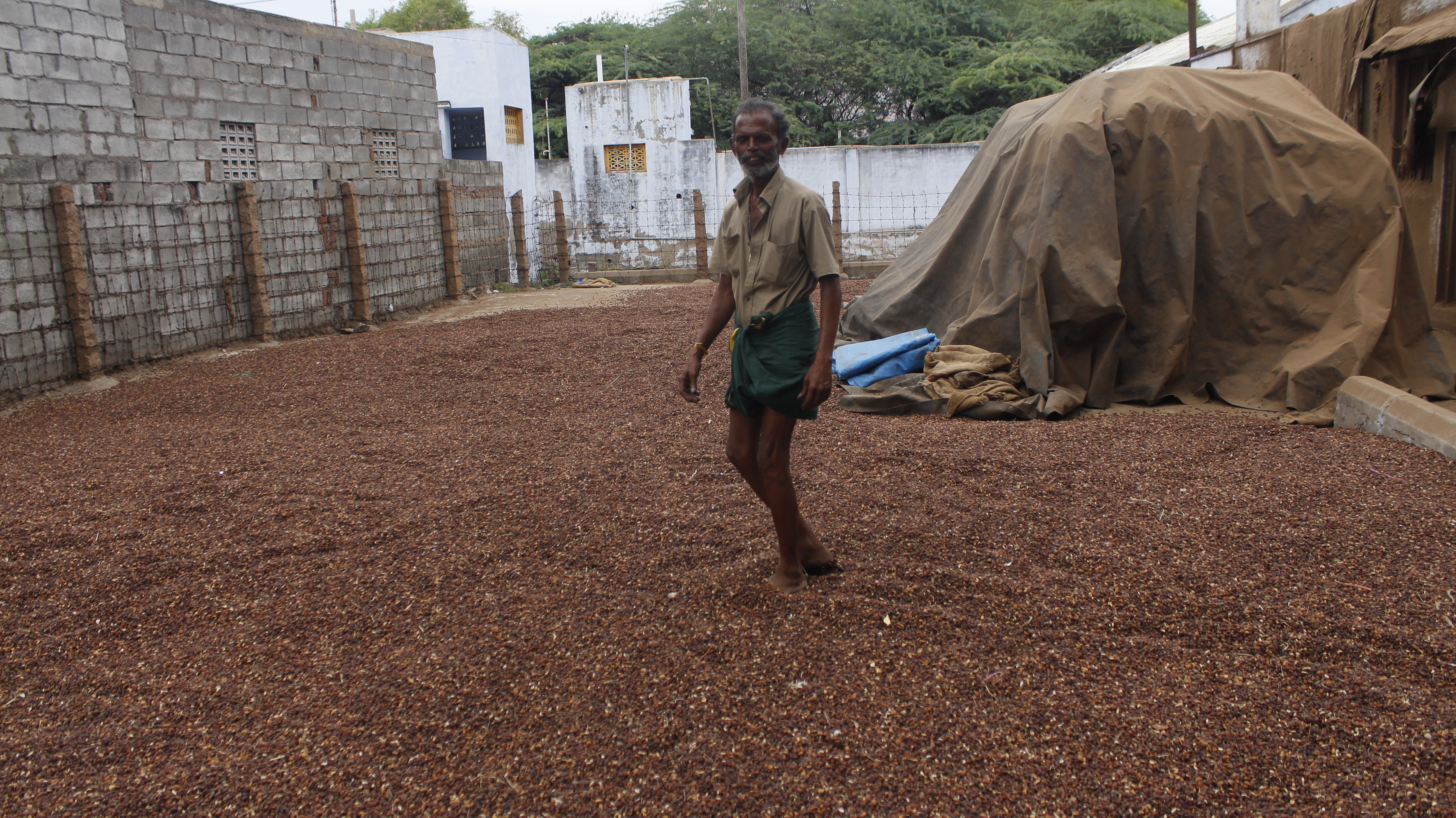 Ineem fruit dry process